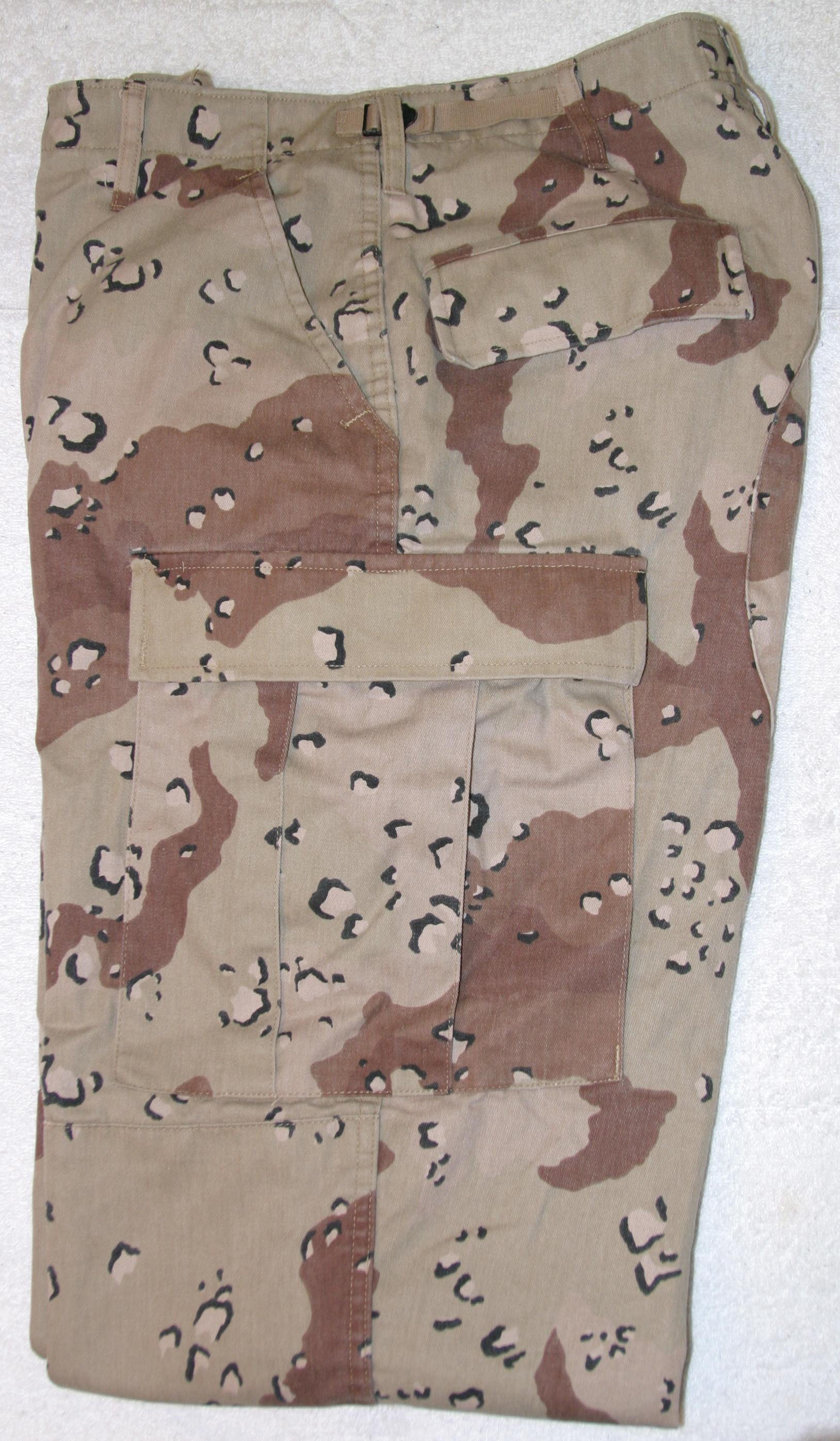 Chocolate Chip BDU pants. Taken 1/31/05 by User:Pretzelpaws with a Canon EOS-10D camera. Cropped 2/8/05 using the GIMP.